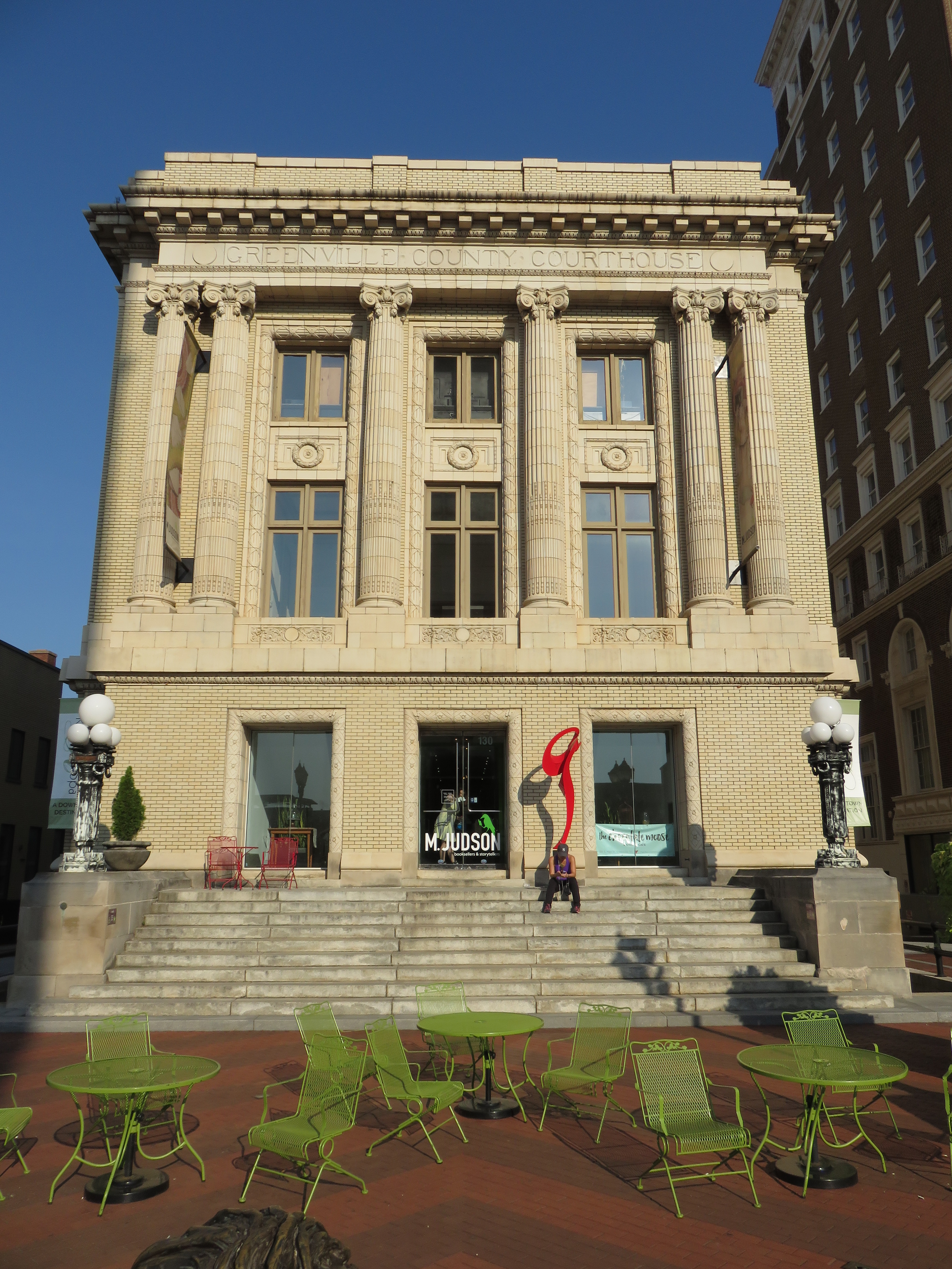 Old Greenville County Courthouse in Greenville, South Carolina in 2017